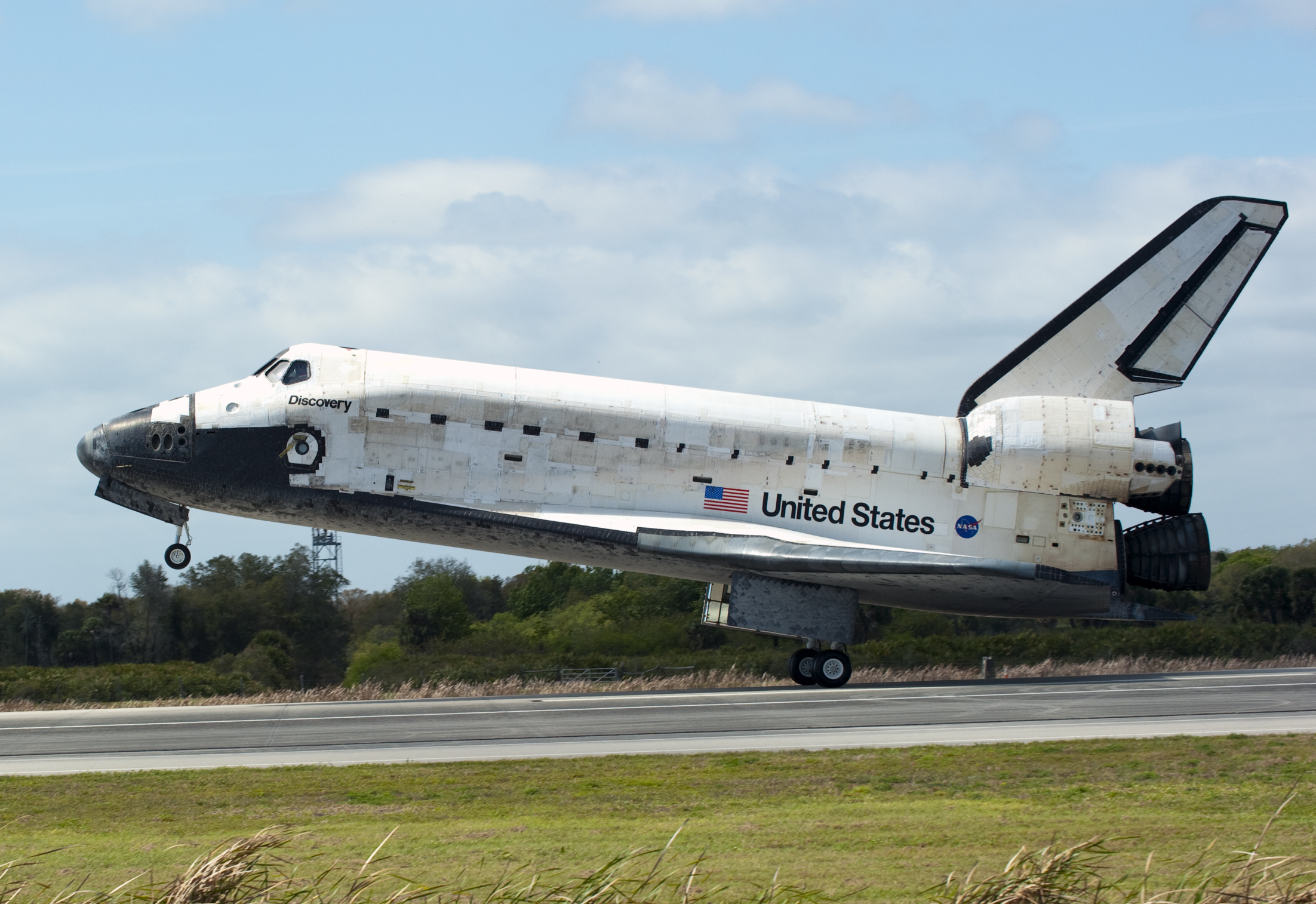 CAPE CANAVERAL, Fla. - Space shuttle Discovery touches down on Runway 15 at the Shuttle Landing Facility at NASA's Kennedy Space Center in Florida. Landing was at 11:57 a.m. EST, completing the 13-day STS-133 mission to the International Space Station. Main gear touchdown was at 11:57:17 a.m., followed by nose gear touchdown at 11:57:28, and wheelstop at 11:58:14 a.m. On board are Commander Steve Lindsey, Pilot Eric Boe, and Mission Specialists Nicole Stott, Michael Barratt, Alvin Drew and Steve Bowen. Discovery and its six-member crew delivered the Permanent Multipurpose Module, packed with supplies and critical spare parts, as well as Robonaut 2, the dexterous humanoid astronaut helper, to the orbiting outpost. STS-133 was Discovery's 39th and final mission. This was the 133rd Space Shuttle Program mission and the 35th shuttle voyage to the space station.